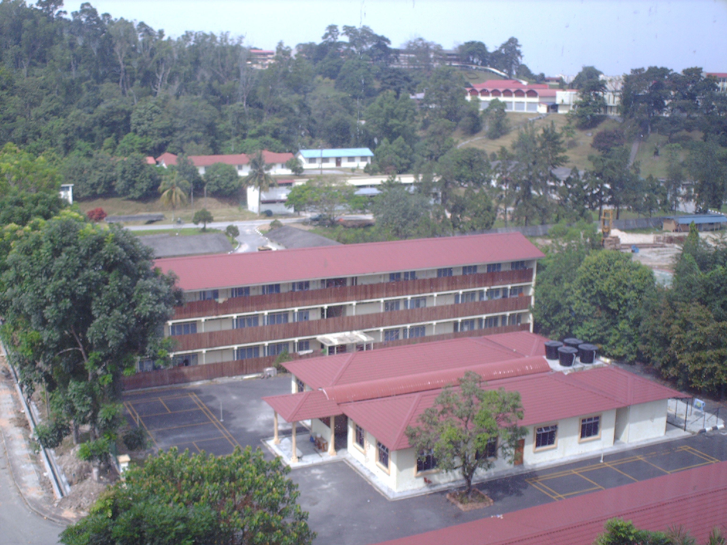 UPNM